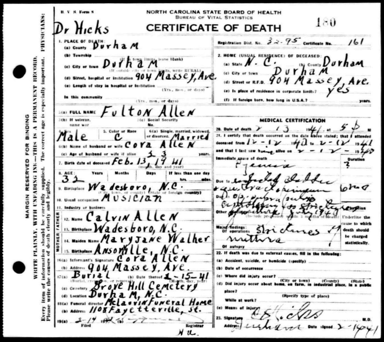 Fulton Allen (a.k.a. Blind Boy Fuller) death certificate, 1941